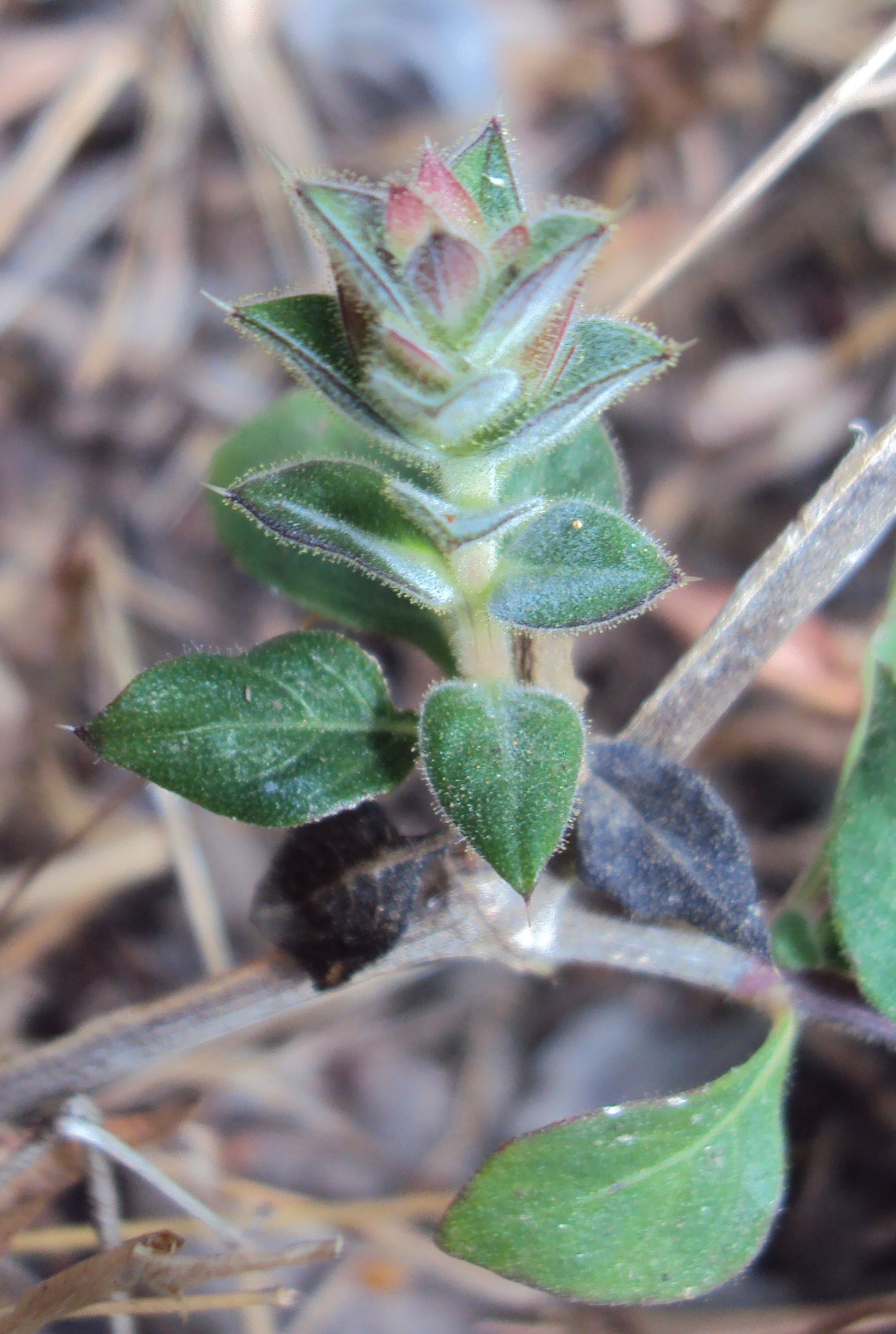 Lepidagathis cuspidata